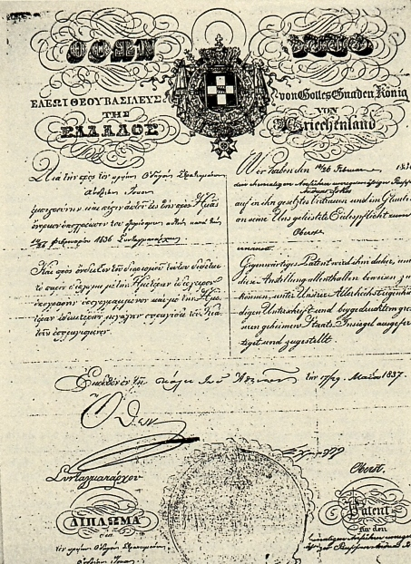 Ισκος προαγωγή σε συνταγματάρχη